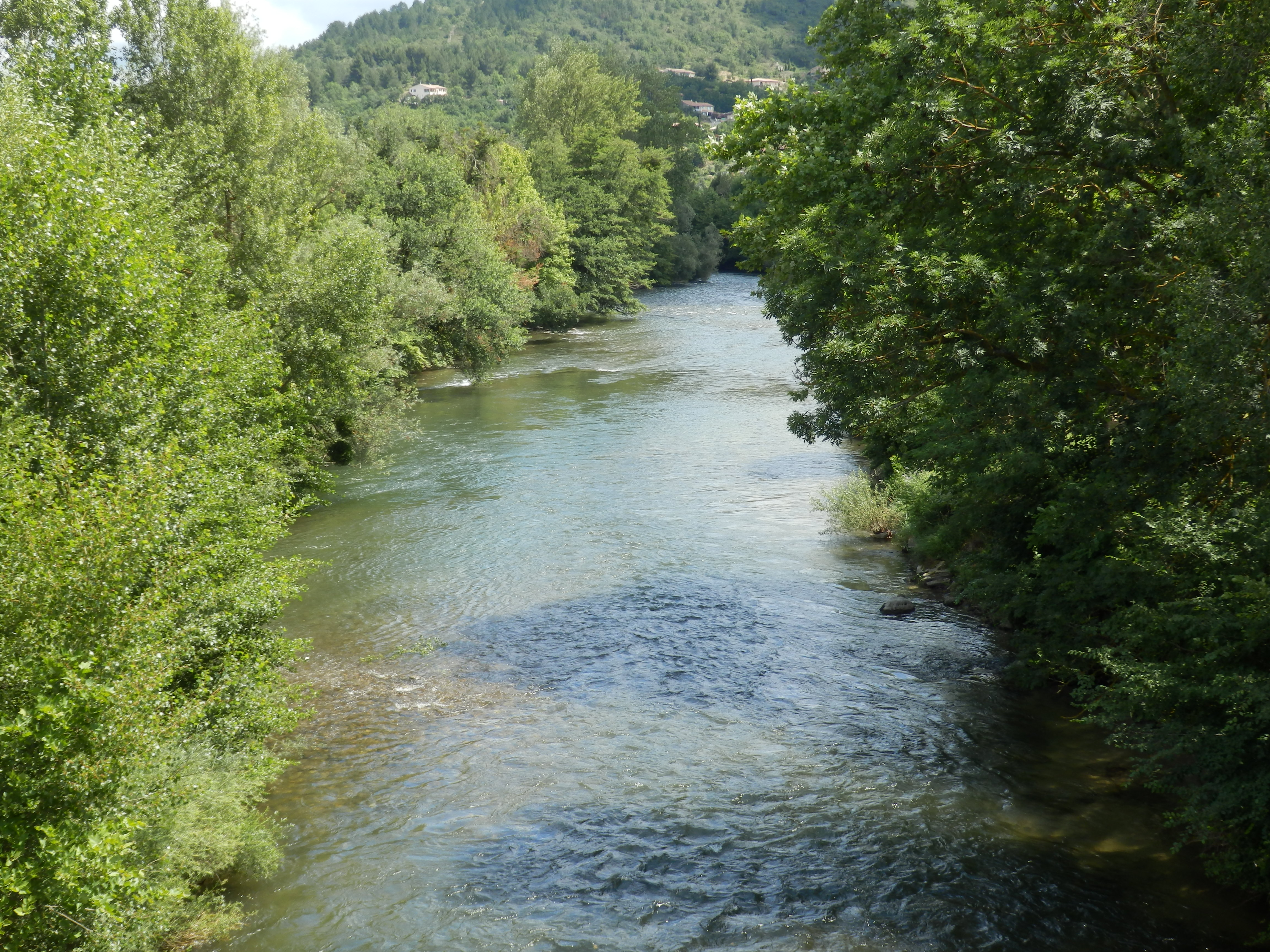 Aude river in Couiza, Aude, France